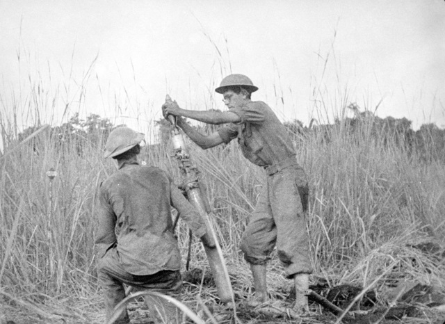 Sanananda, Papua. January 1943. A mortar crew of an Australian infantry battalion load a shell in action against Japanese foxholes in the attack on Sanananda.